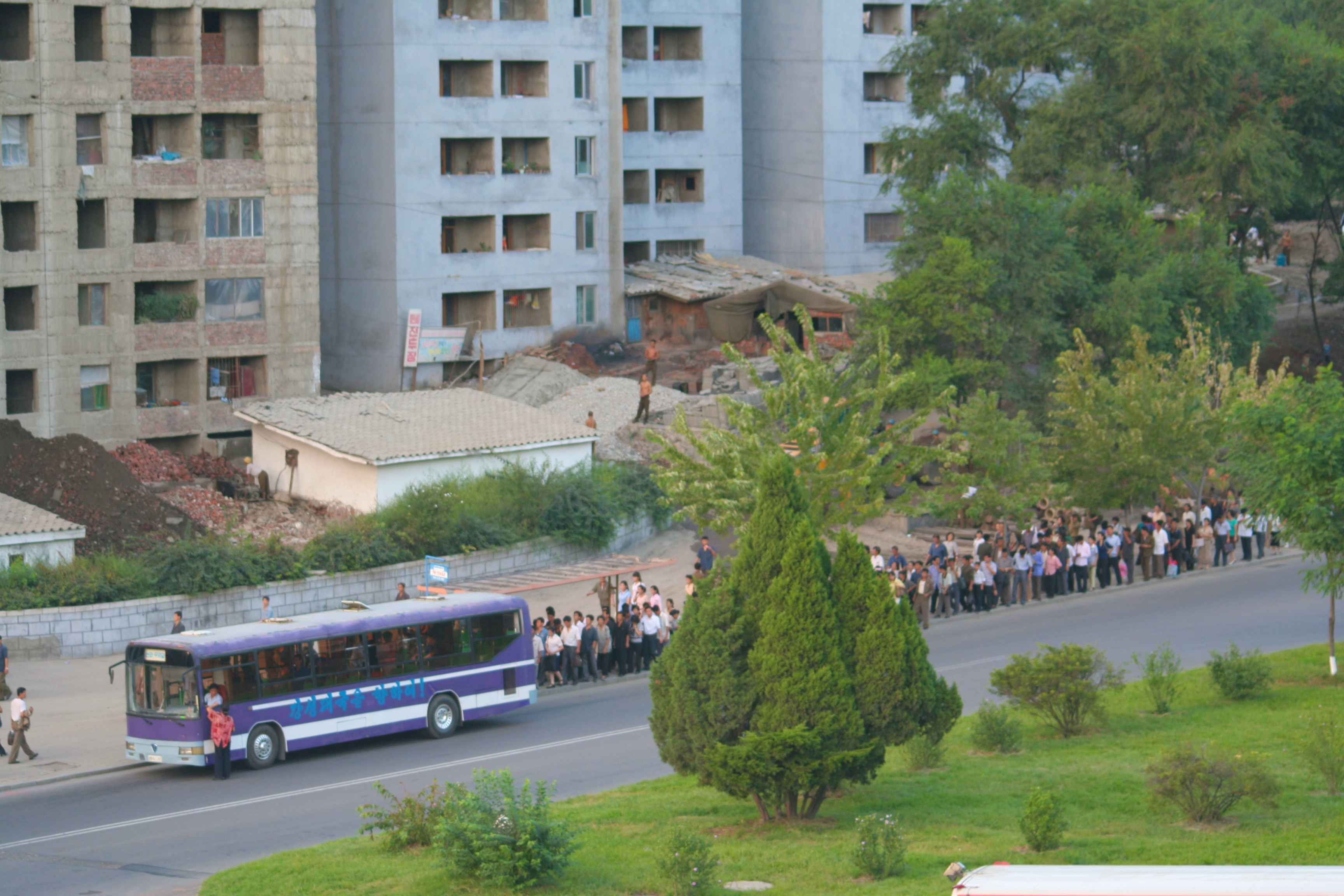 Pyongyang Nobody has cars, most people take the bus